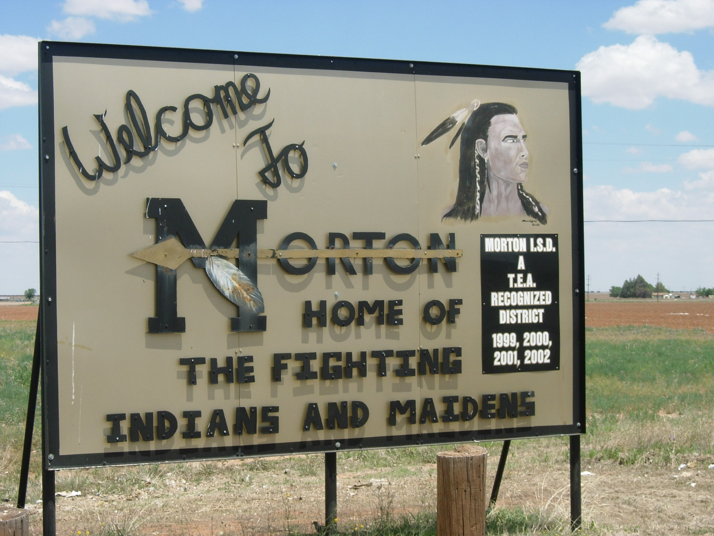 The sign at the eastern entrance to Morton, Cochran County, Texas. Taken by Nach0king in May 2006.